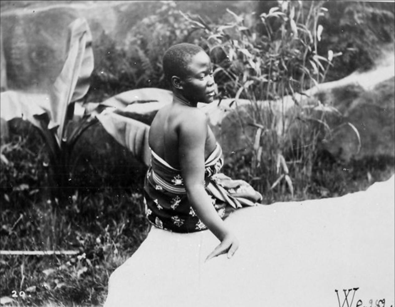 Mongo slave (45 phot. de types d'indigènes du Congo belge. Enregistré en 1928)